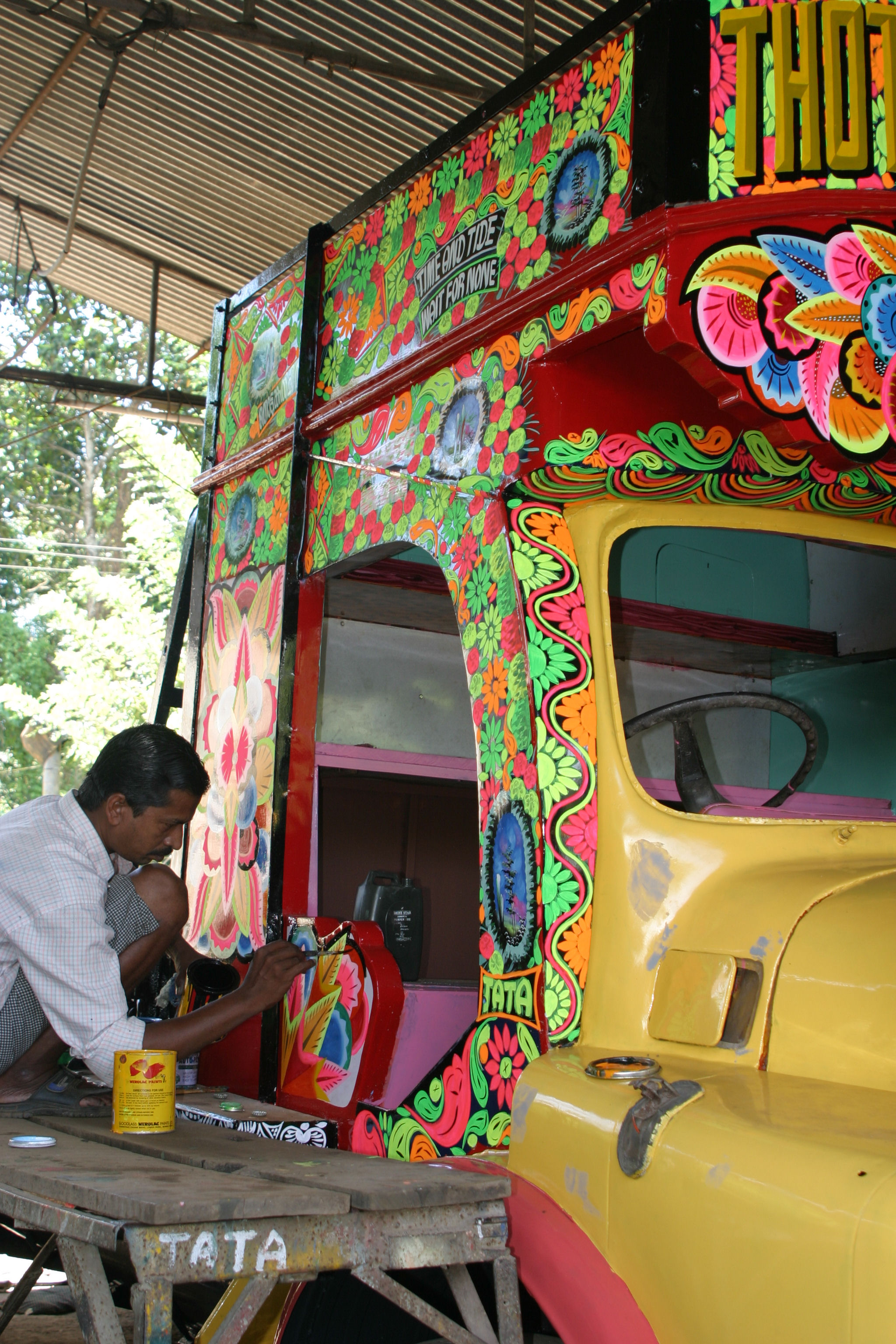 Truck painting near Cochin